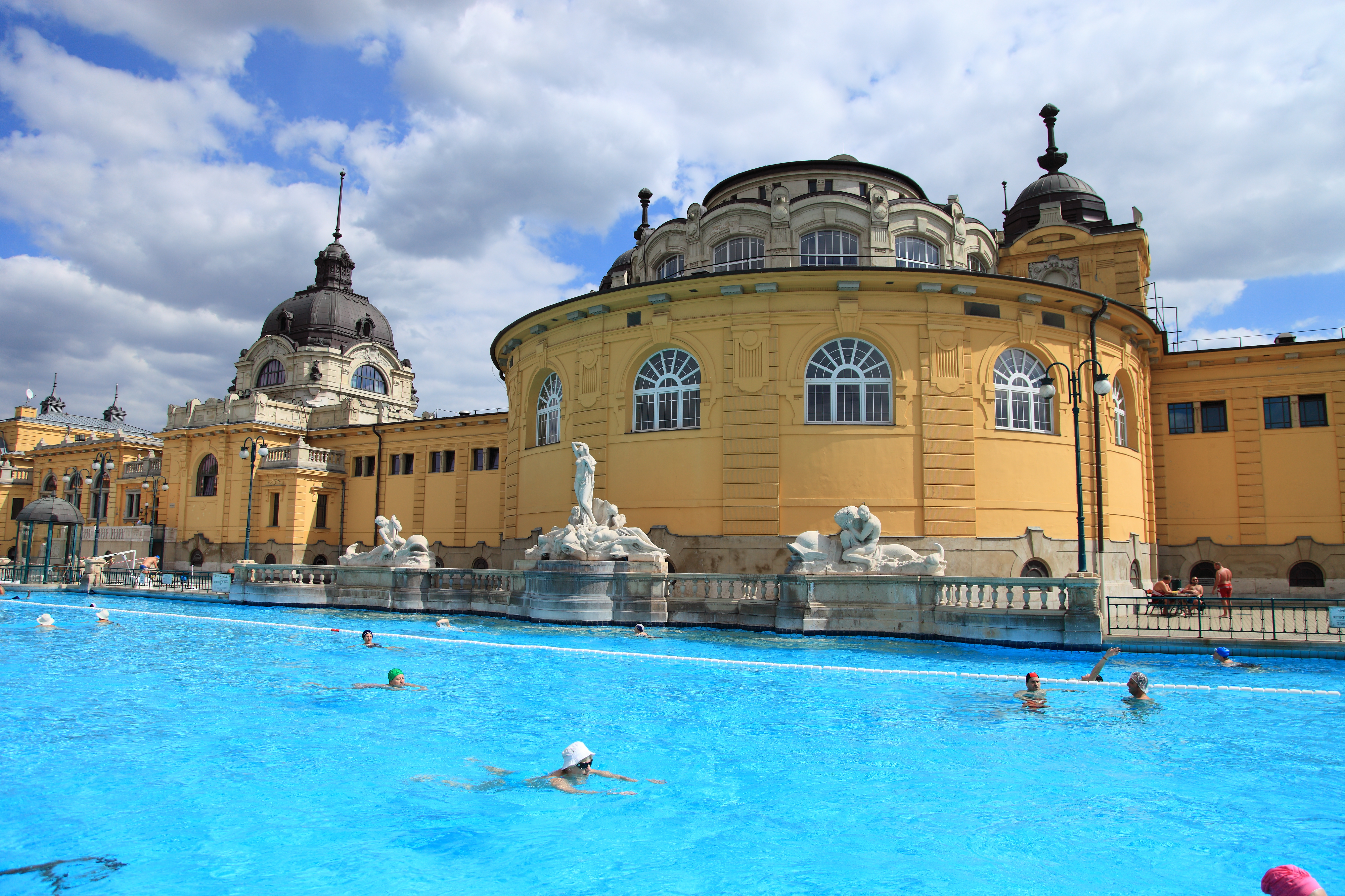 The Széchenyi Bath or Széchenyi-gyógyfürdő built in 1913 is the largest medicinal bath in Europe, with three large outdoor baths; 2 thermal and one swimming pool.